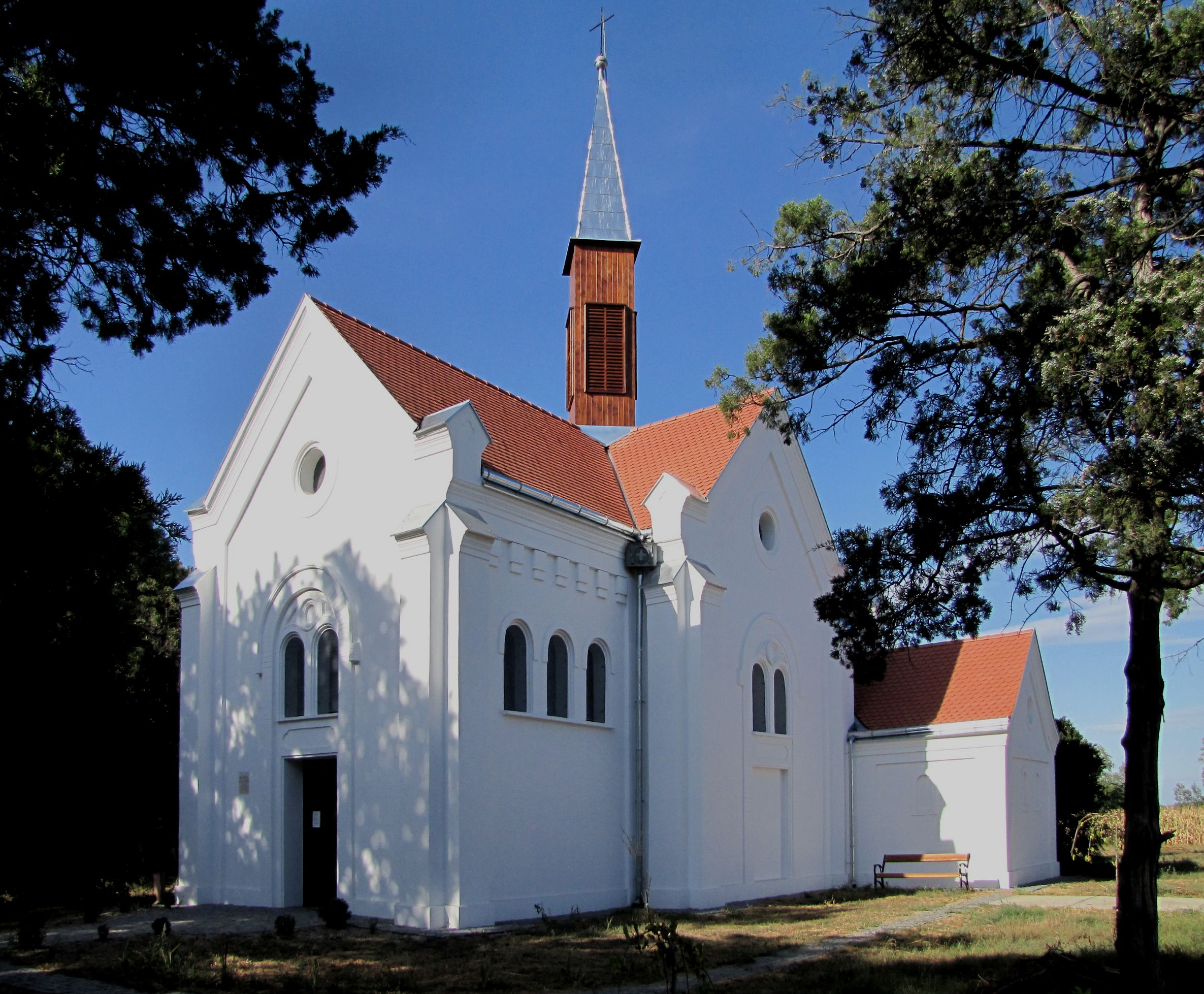 Szapáry Chapel, Tiszabura-Pusztataskony, Hungary. The final resting place of Prime Minister Gyula Szapáry.